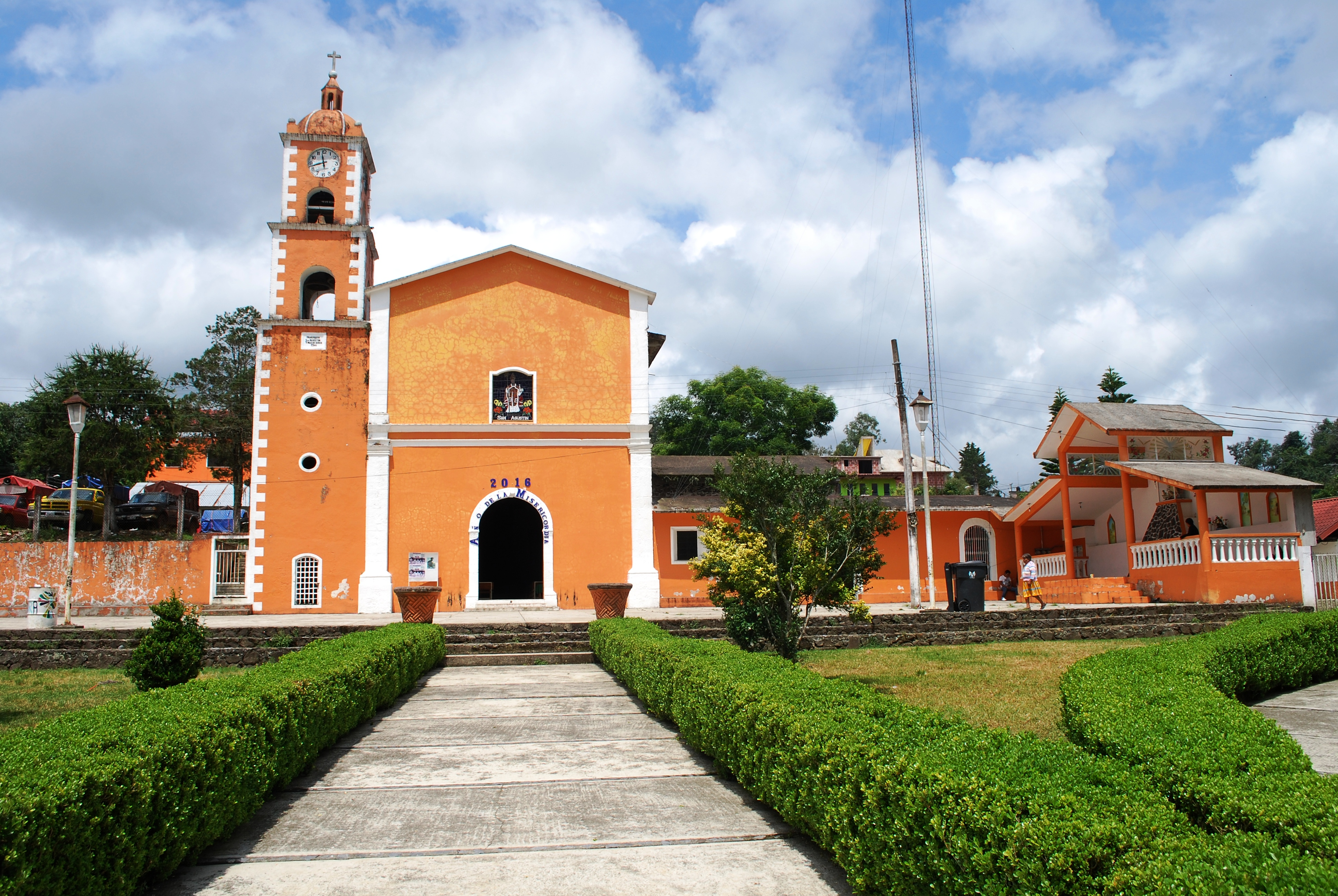 Facade of the parish of San Agustin in Tenango de Doria, Hidalgo, Mexico